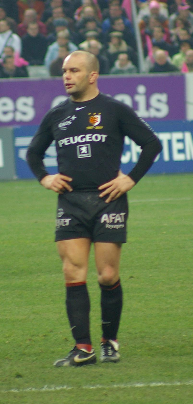 Pictures from the rugby game Stade Français vs Stade toulousain which took place in Stade de France, Paris, 27/01/2007. Yannick Bru (French international player)